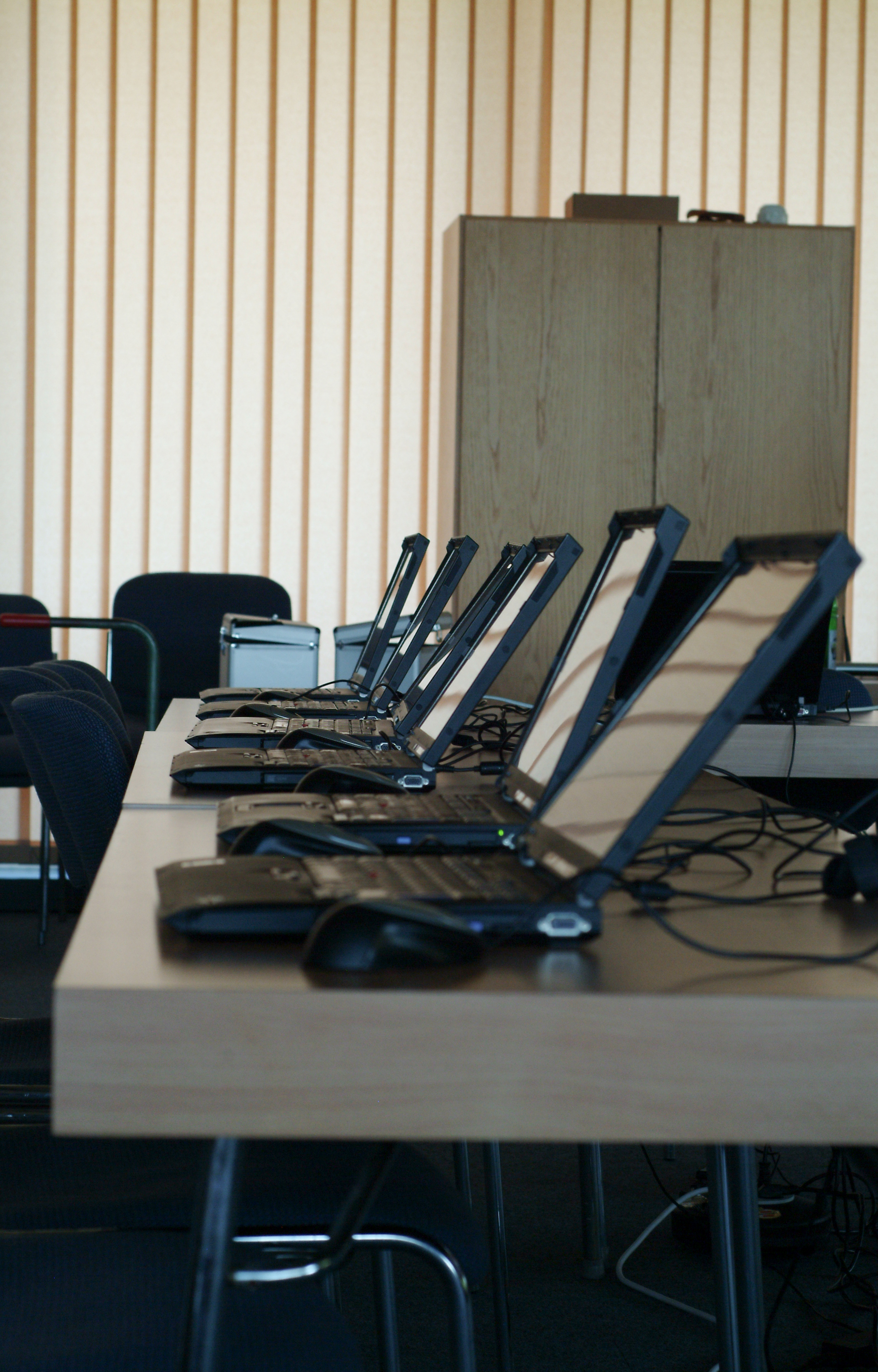 Opening of the online course "Wikipedia in internet cafés for older people", Düsseldorf, Germany